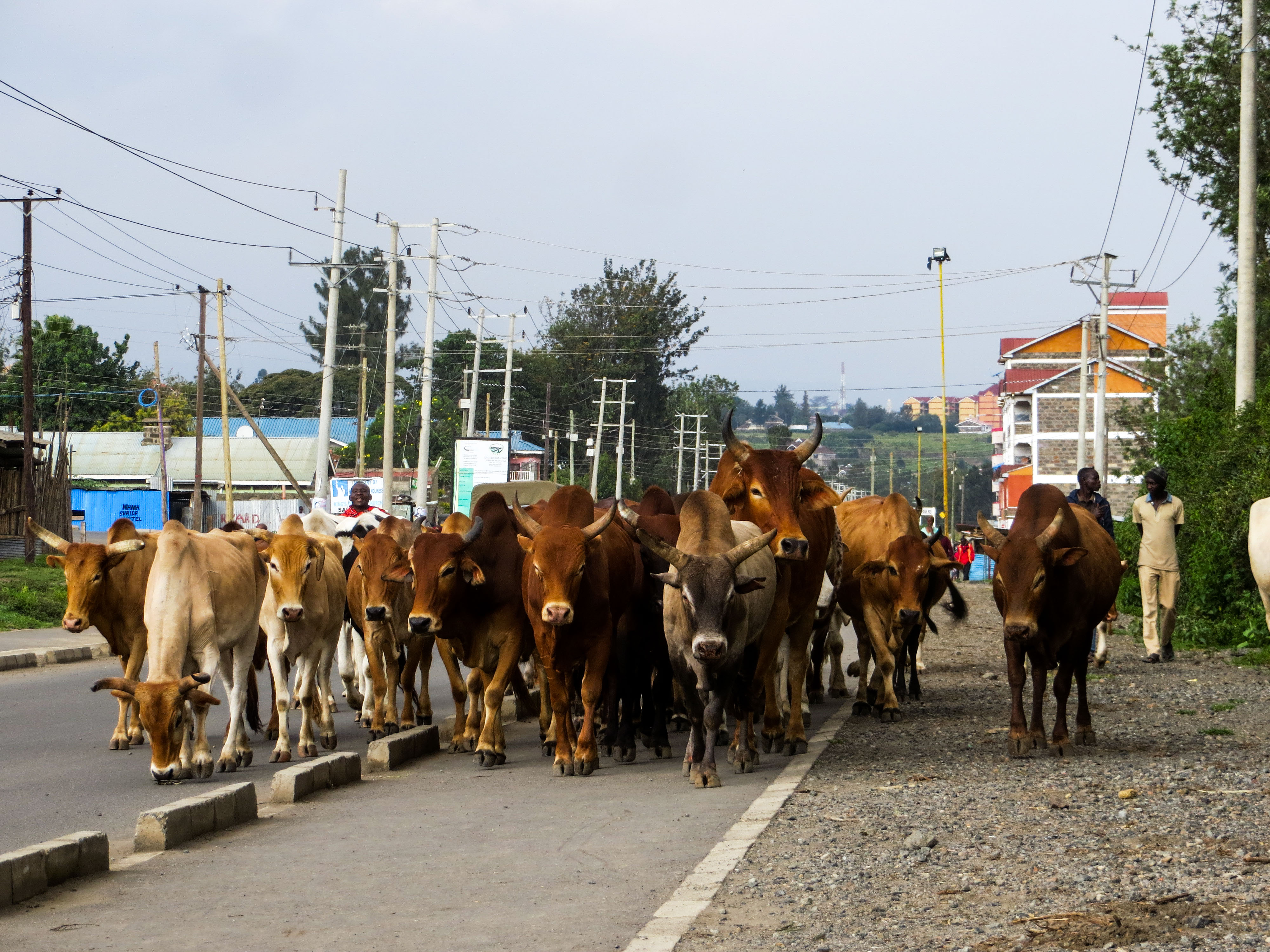 Zebu cows in the streets This is an image with the theme "Africa on the Move or Transport" from: Kenya